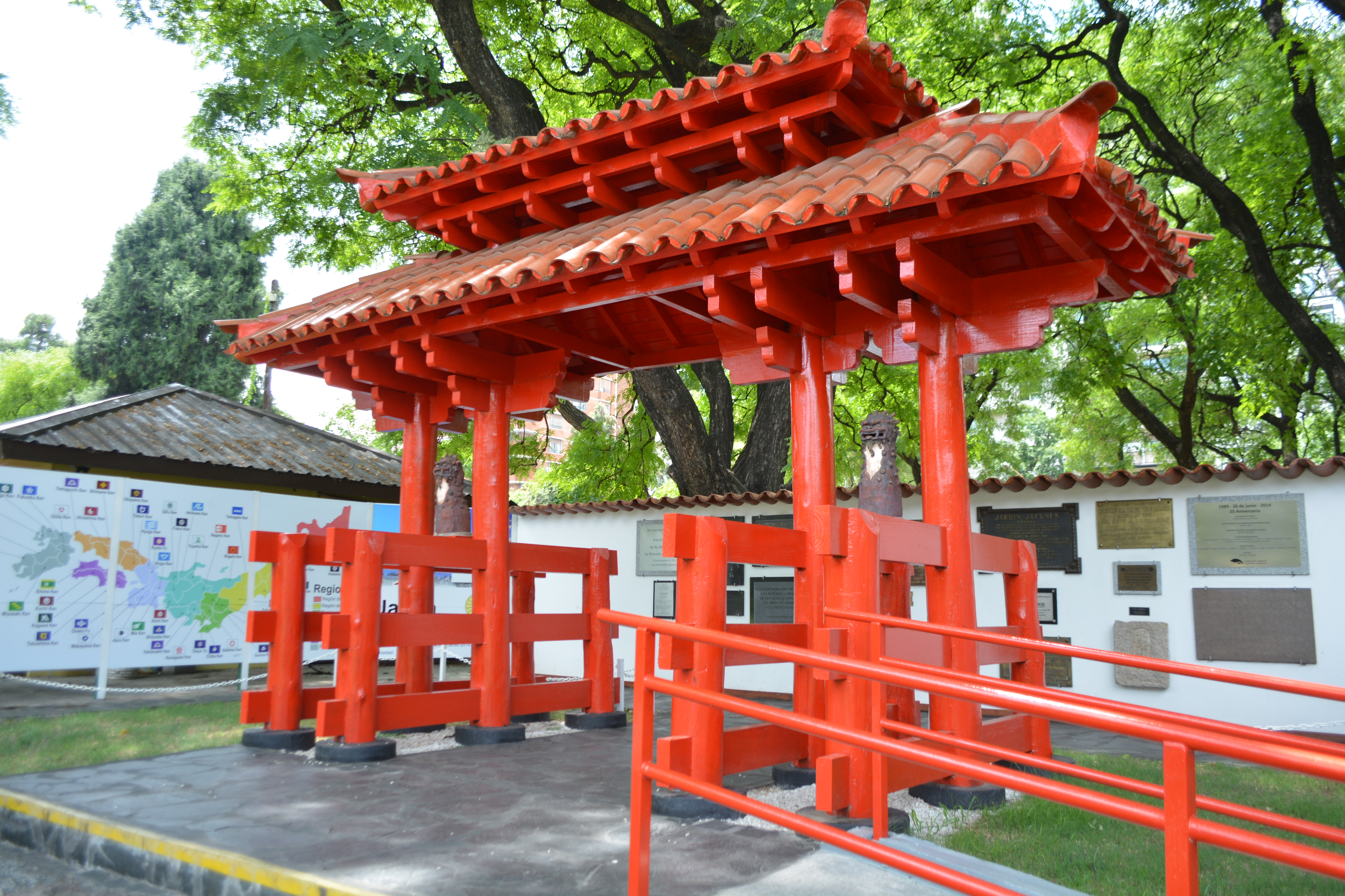 The Buenos Aires Japanese Gardens, Bosques de Palermo, Buenos Aires.